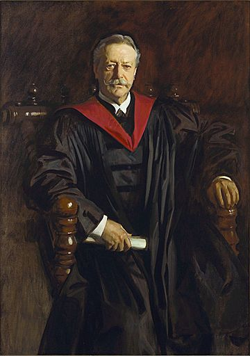 Abbott Lawrence Lowell, 1923, by John Singer Sargent. Harvard University Portrait Collection, Cambridge, MA.